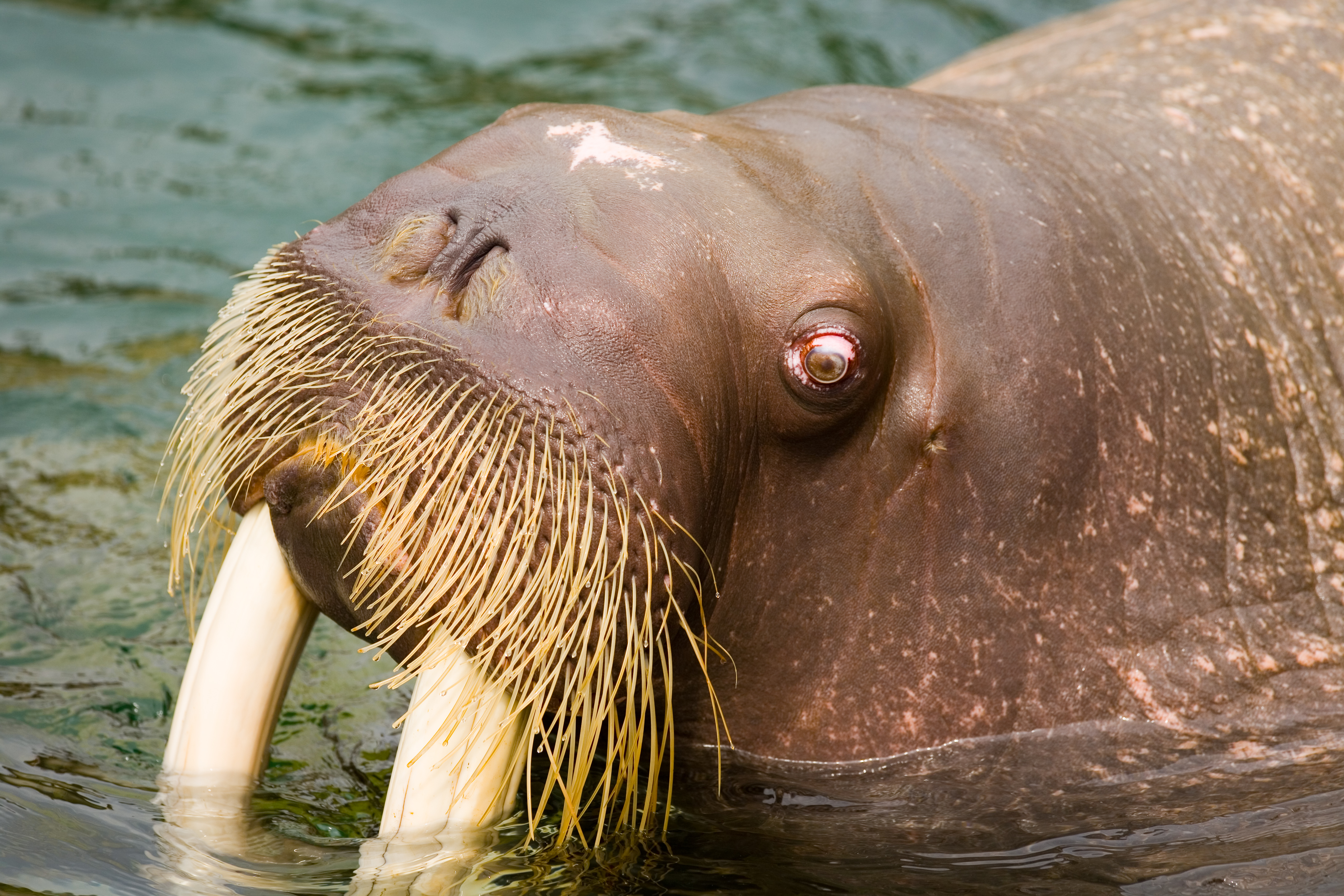 Walrus at Kamogawa Seaworld, Japan